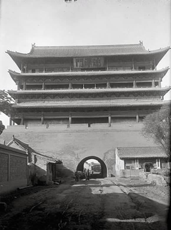 Yingzemen (also "Danamen"), a gate in old Taiyuan city, now no longer exists.